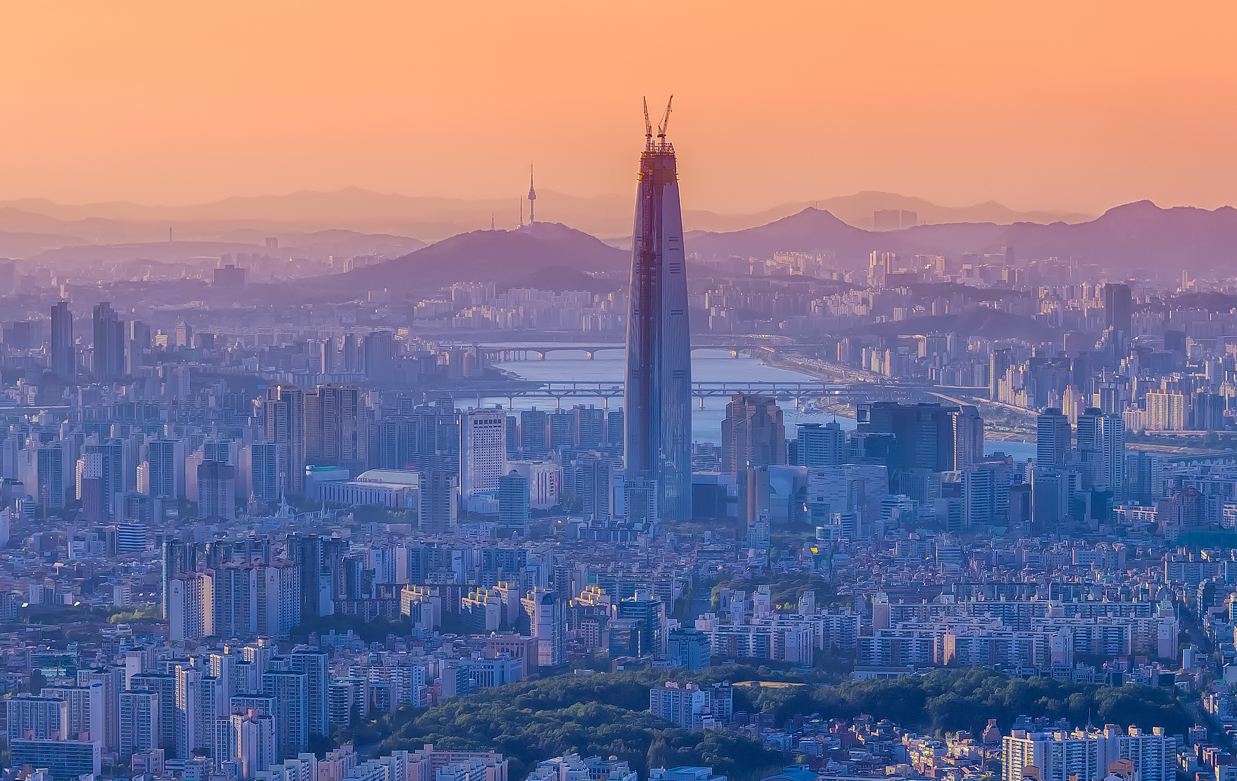 downtown Seoul, South Korea